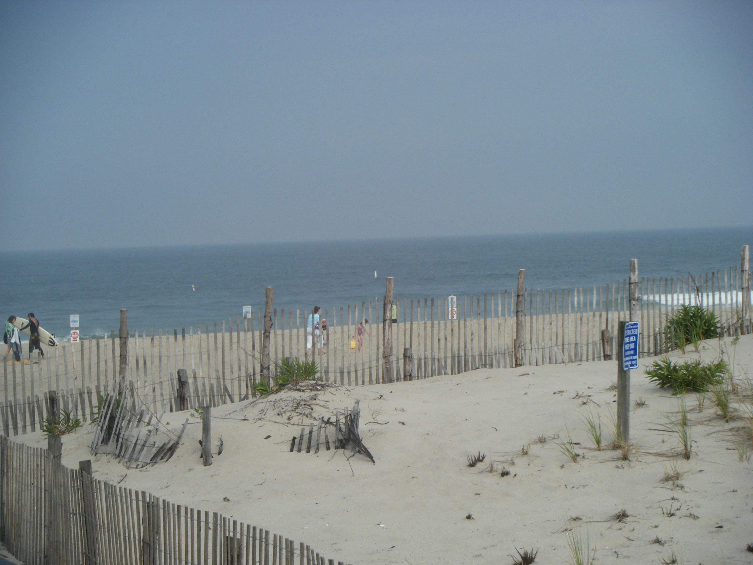 A view of the beach in Seaside Park, New Jersey south of Funtown Pier